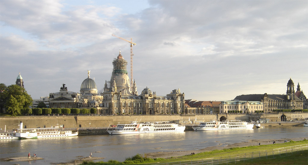 View on the "brühlsche Terrasse" in Dresden (Summer 2004). On the left there is the "brühlscher Garten" with the tower of the city hall in the back. In the mid we see the "Künstakademie" (art academie) and the uncomplete reconstructet "Frauenkirche".